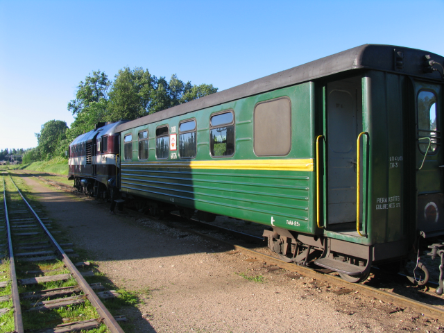 Passenger train of Bānītis in Alūksne, Latvia